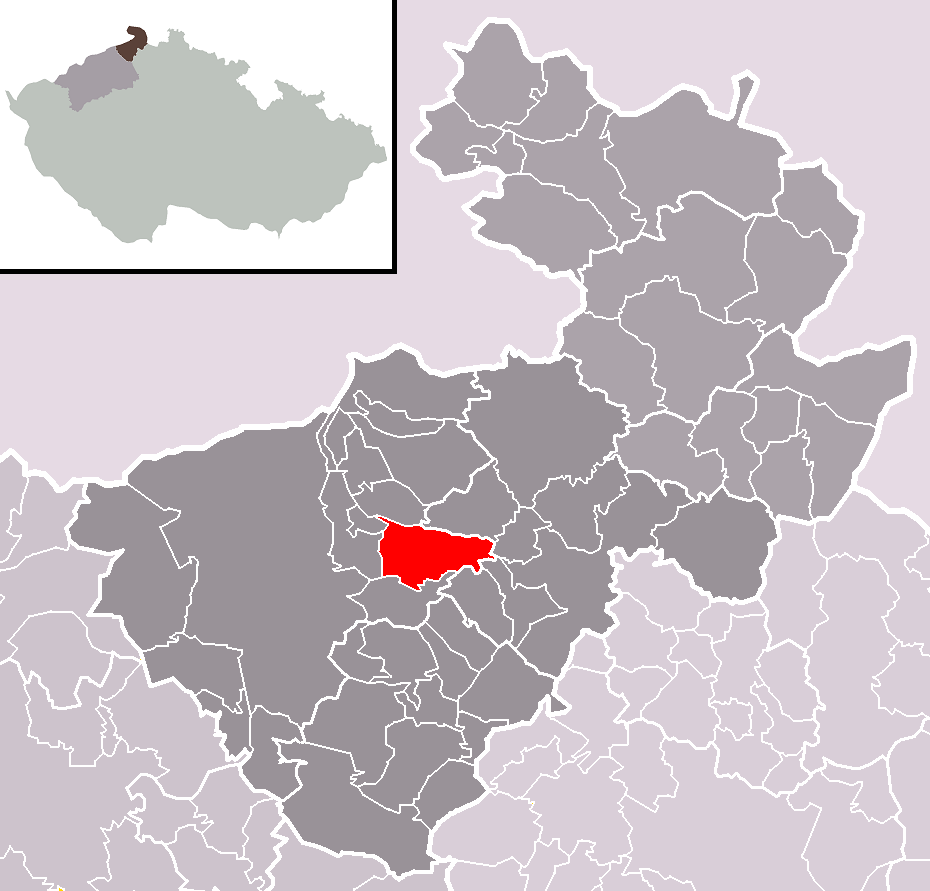 Location of Huntířov municipality within Děčín District and administrative area of Děčín as a Municipality with Extended Competence.